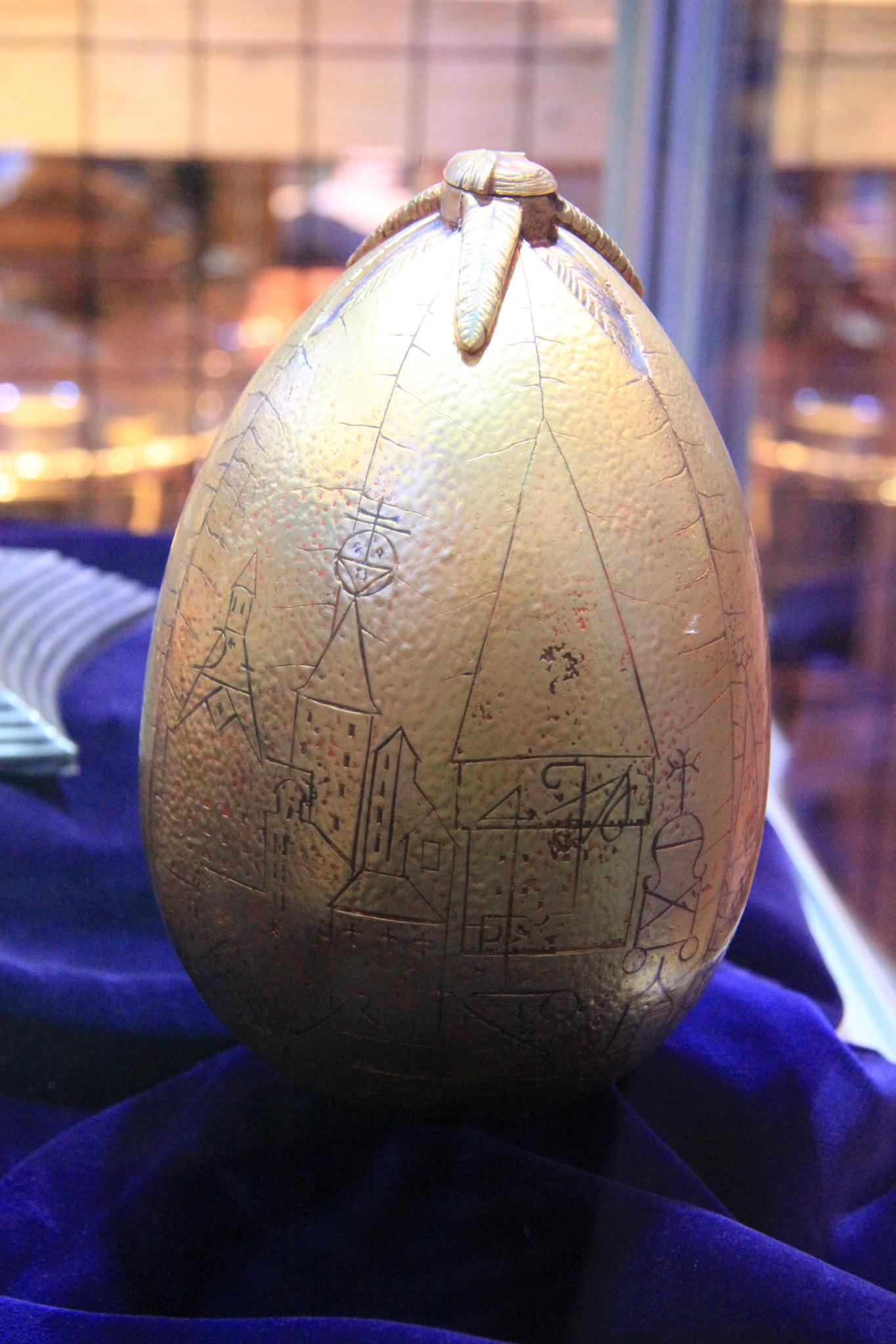 Warner Bros. Studio Tour London: The Making of Harry Potter.